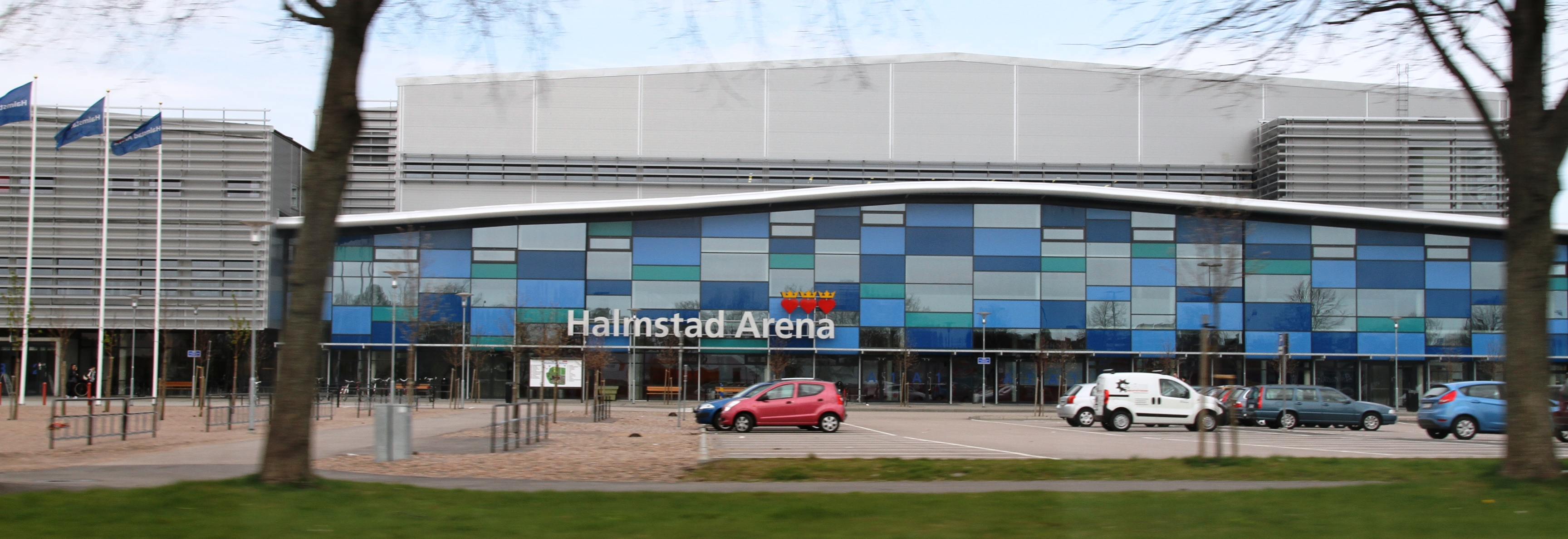 Halmstad Arena, an event arena in eastern Halmstad, western Sweden